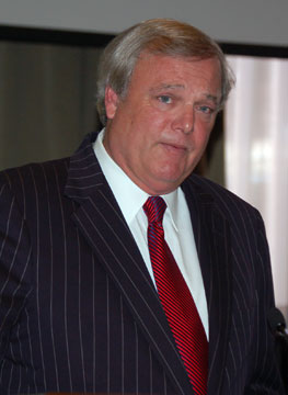 Jim Folsom Jr. talks about Alabama’s economic problems with the Downtown Democratic Club.